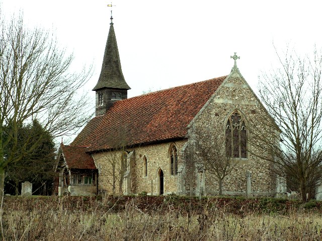 St.John the Evangelist church, Little Leighs, Essex. This small church dates back to the 12th century. Like many churches in south Essex, it has a timber belfry.